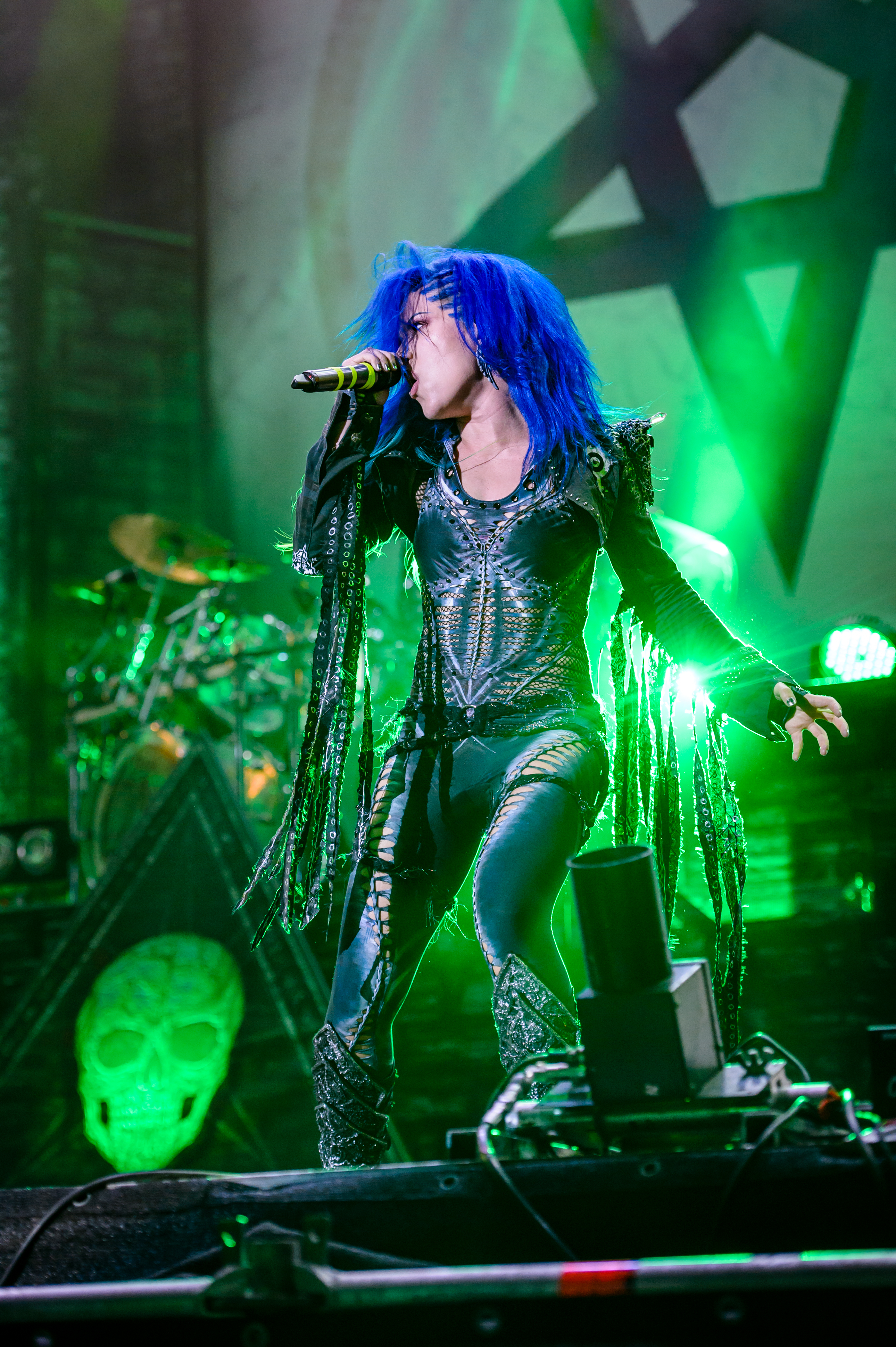 Arch Enemy; Wacken Open Air 2016